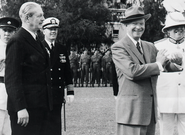 Description: US President Dwight D. Eisenhower and British Prime Minister Harold Macmillan meet for talks in Bermuda, partly to repair Anglo-American relations after the disastrous Suez Crisis of the previous year. Date: March 1957 Our Catalogue Reference: CO 1069/268 This image is from the collections of The National Archives. Feel free to share it within the spirit of the Commons. For high quality reproductions of any item from our collection please contact our image library.